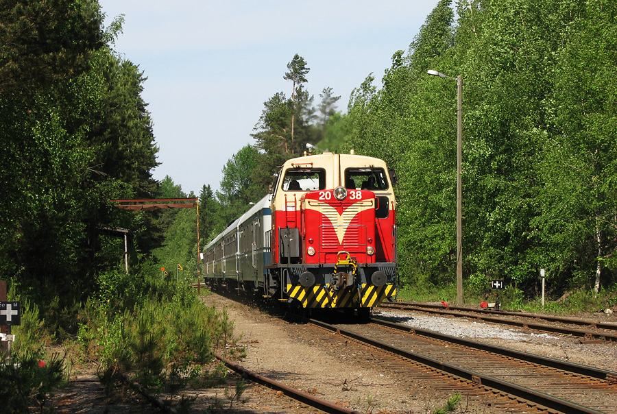 A museum train pulled by VR Class Dv16 diesel locomotive (no. 2038) passing Myllyoja railway station in Heinola, Finland